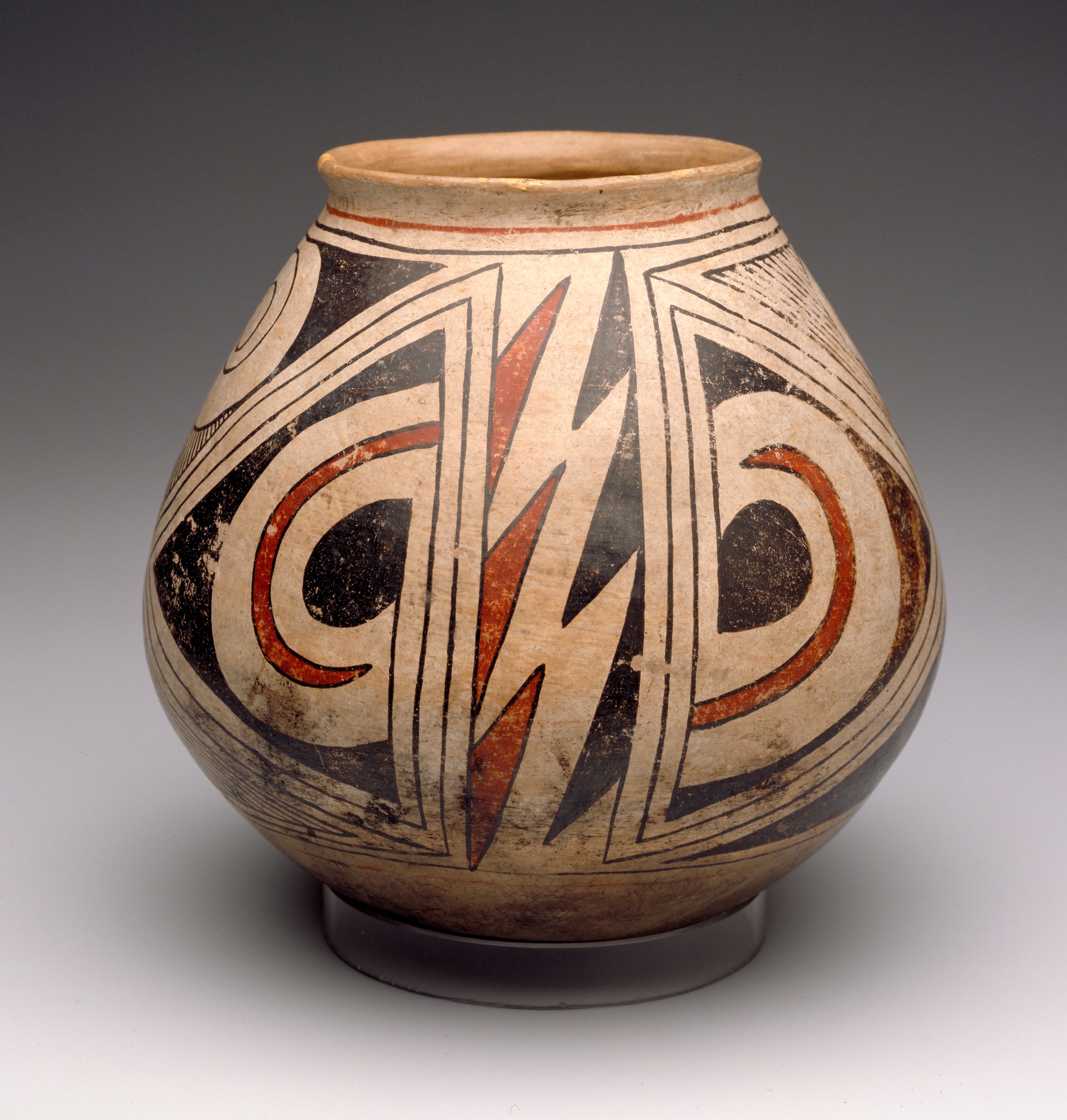 Title Pot (Olla) Dated c. 1000-1300 Role Artist Gallery Not on View Department Art of Africa and the Americas Dimension 8 1/2 x 8 3/4 x 8 3/4 in. (21.6 x 22.2 x 22.2 cm)